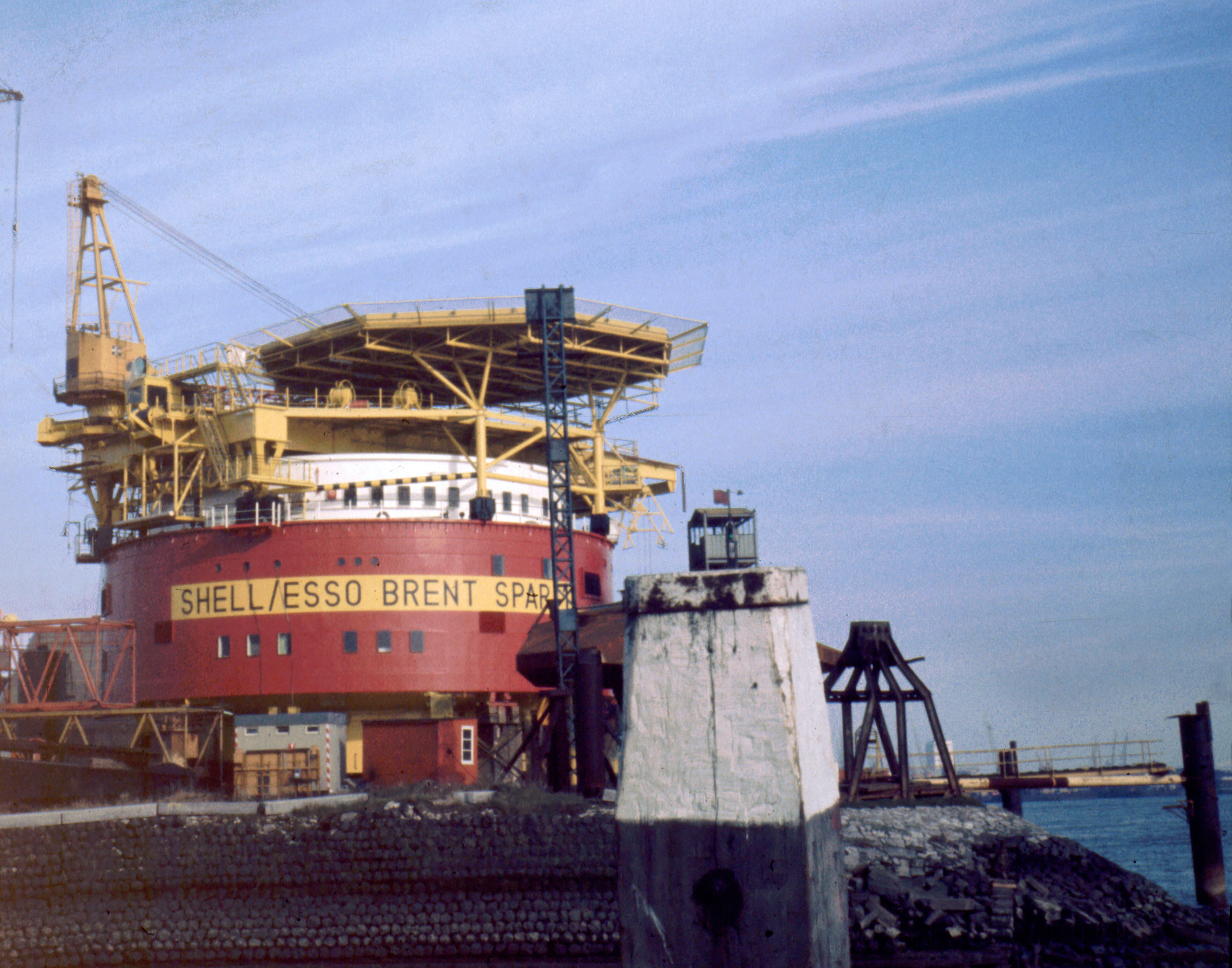 The Shell / ESSO Brent Spar, still under construction in the Netherlands. Photo scanned from a dia by my late father, in or around 1975